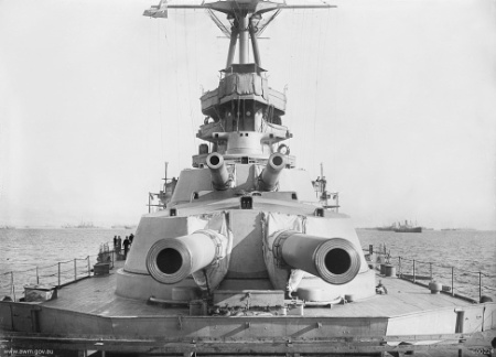 AWM caption : "Forward guns and bridge of the battleship HMS Queen Elizabeth located off the shores of Gallipoli Peninsula."